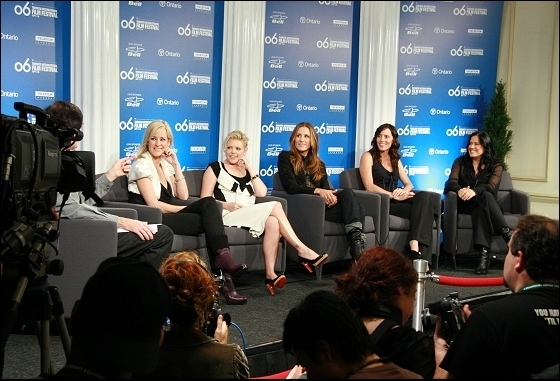 The Dixie Chicks. By W. Andrew Powell/The GATE, September 2006. From